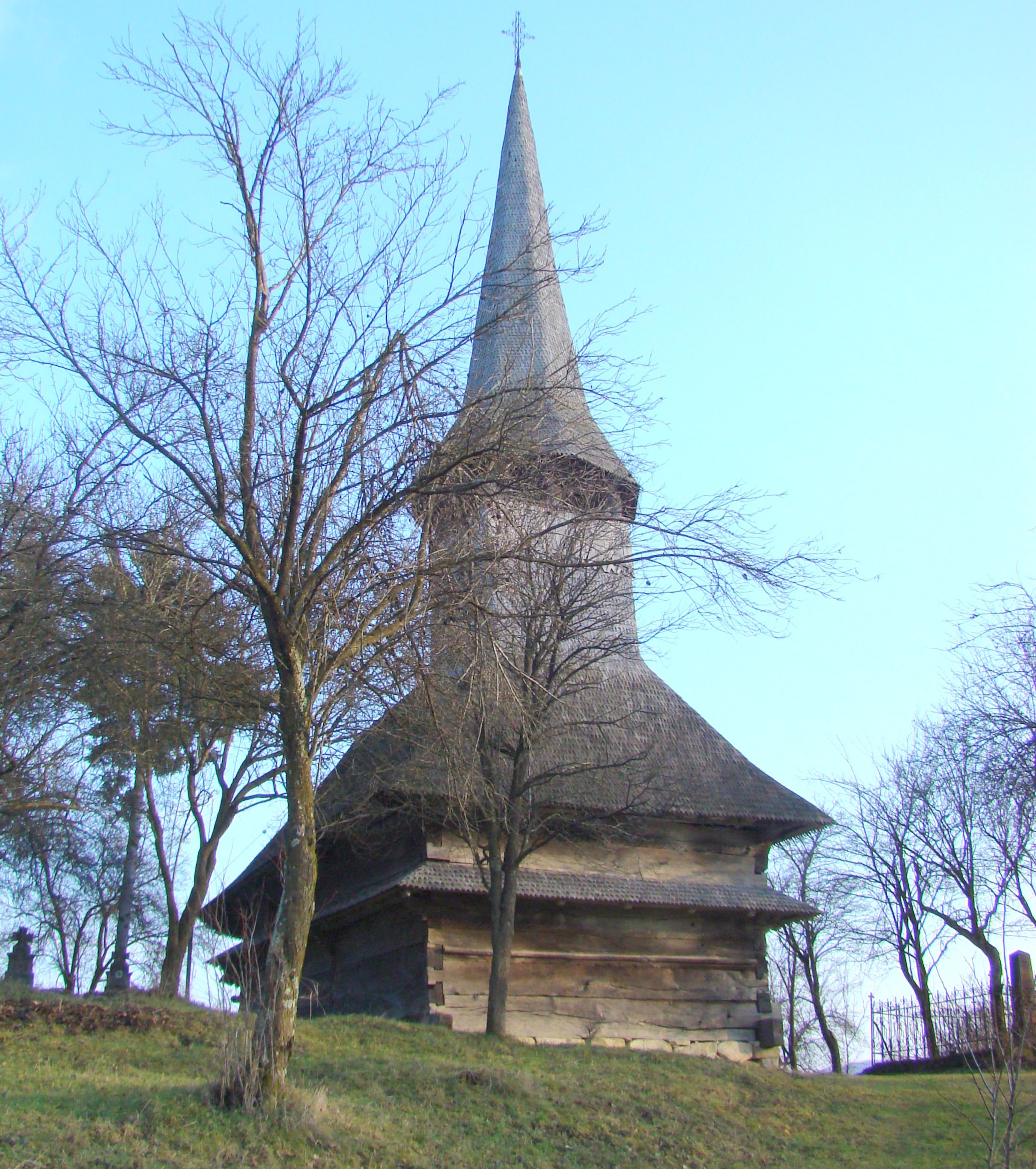 Wooden church in Domnin, Sălaj county, Romania